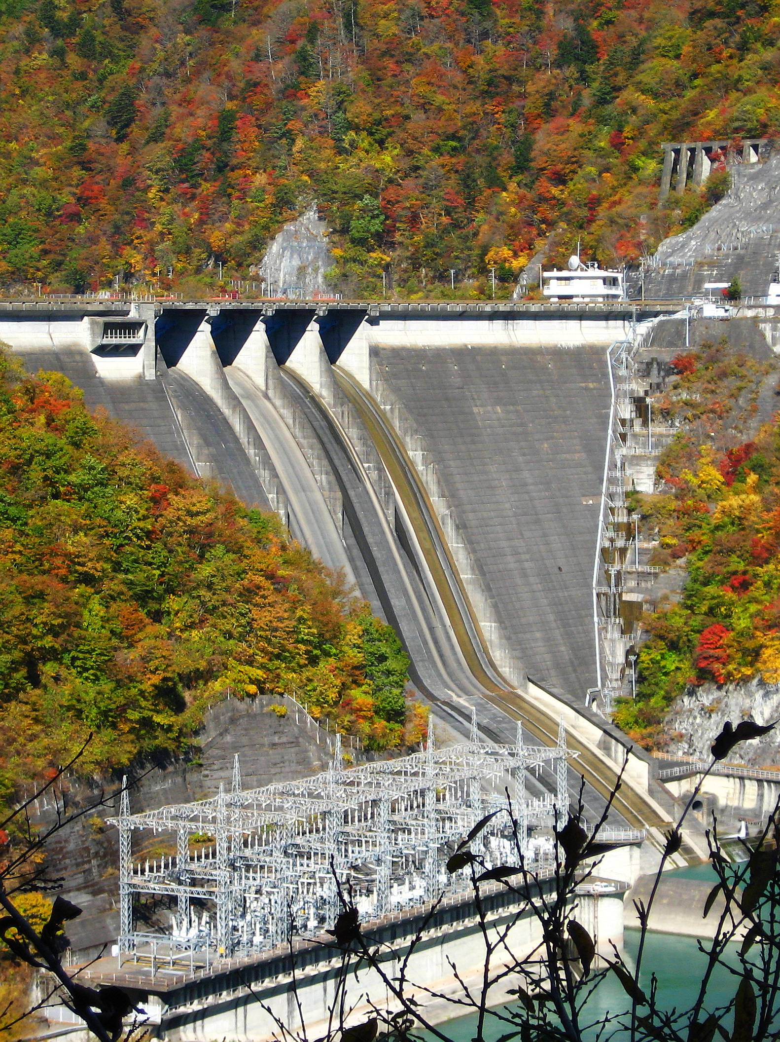 Hatanagi I Dam (畑薙第一ダム) in Shizuoka city, Shizuoka prefecture, Japan.